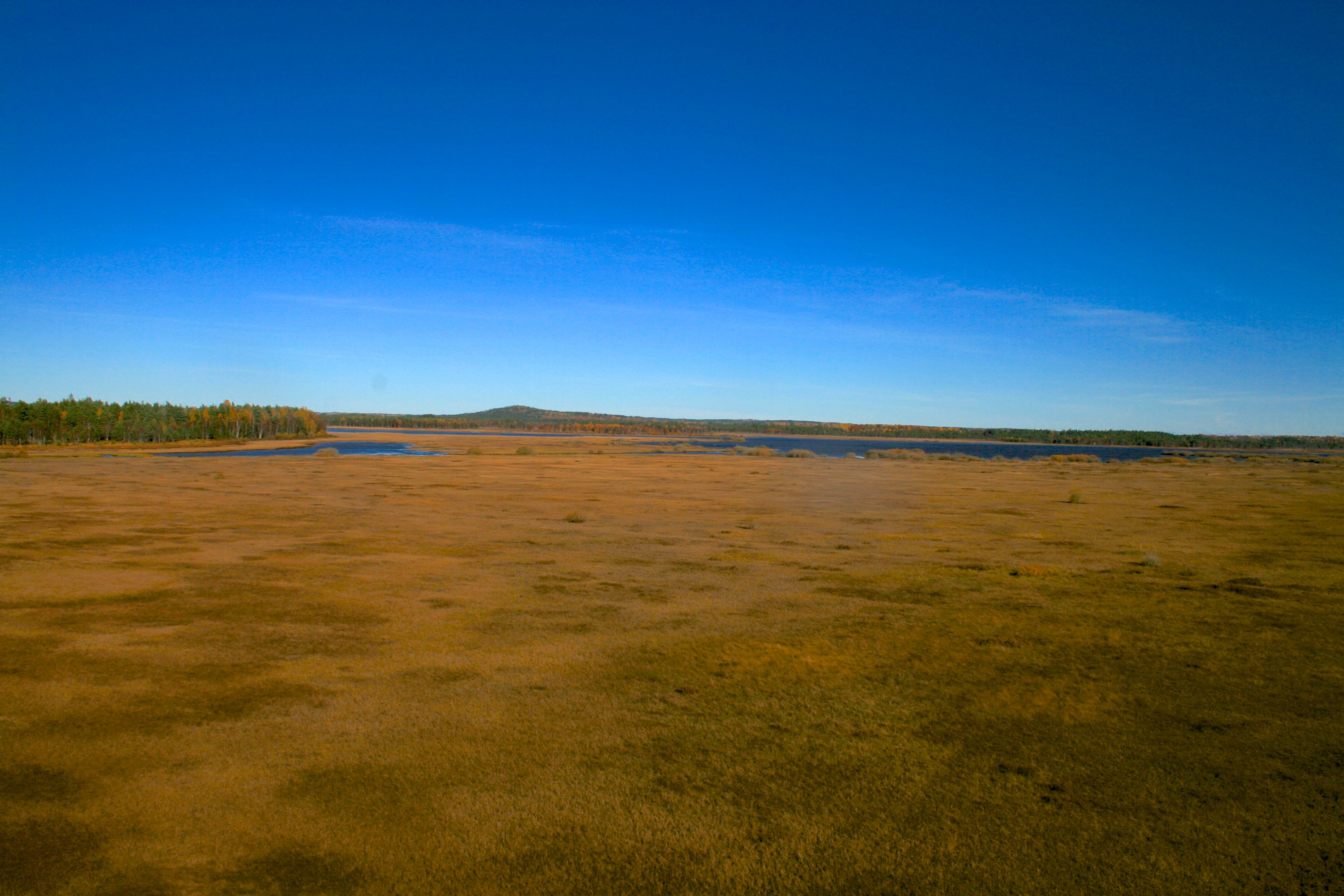 Stora Gungflyet swamps in Store Mosse national park, seen from the large watching tower.